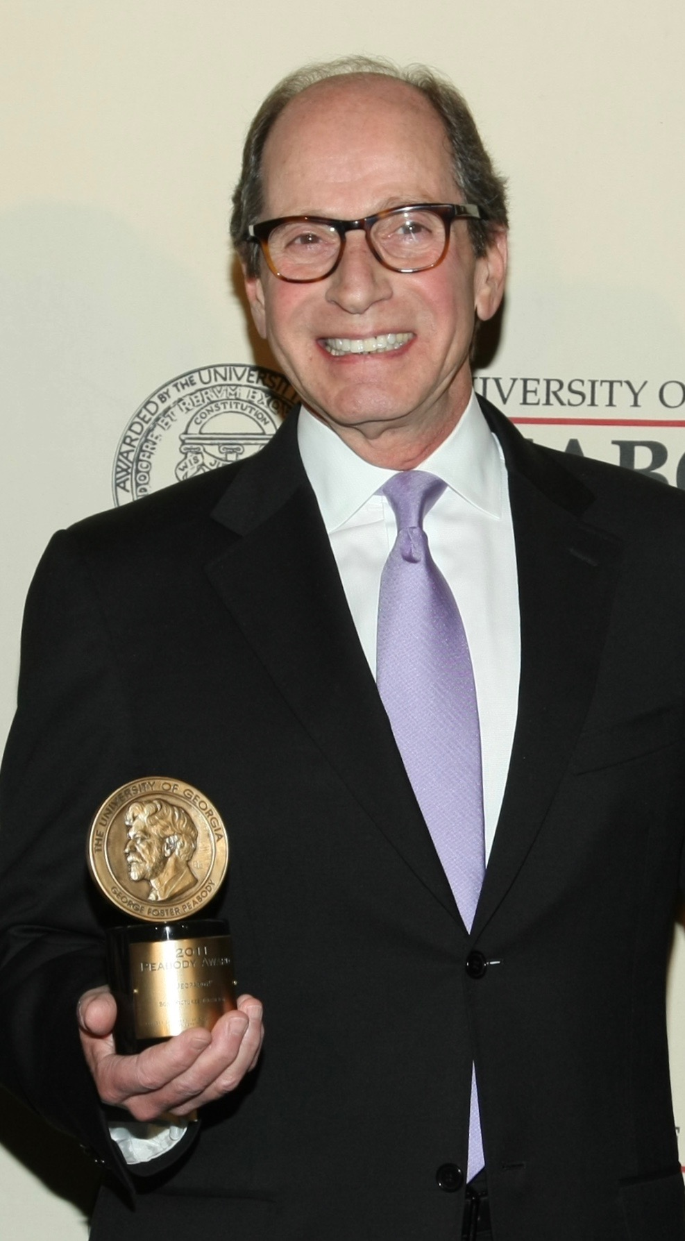 Harry Friedman in 2012, holding the Peabody Award received at the 71st Annual Peabody Awards ceremony, for the long-running game show, "Jeopardy!" PHOTO CREDIT: ANDERS KRUSBERG / PEABODY AWARDS